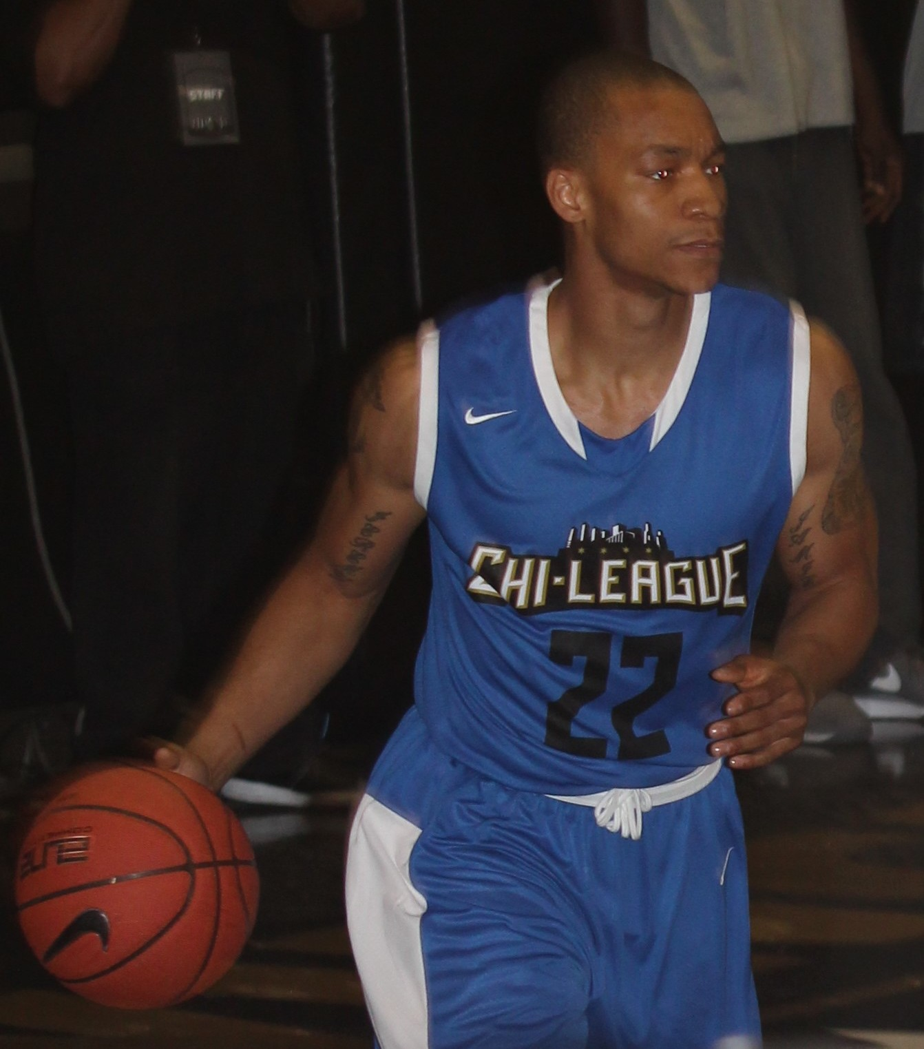 Jerome Randle playing in the Nike summer Chi-League